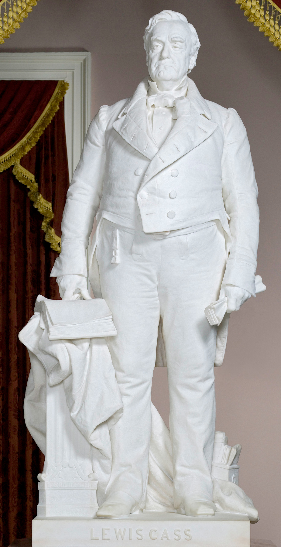 Lewis Cass (1782-1866) Michigan Marble by Daniel Chester French Given in 1889 National Statuary Hall U.S. Capitol